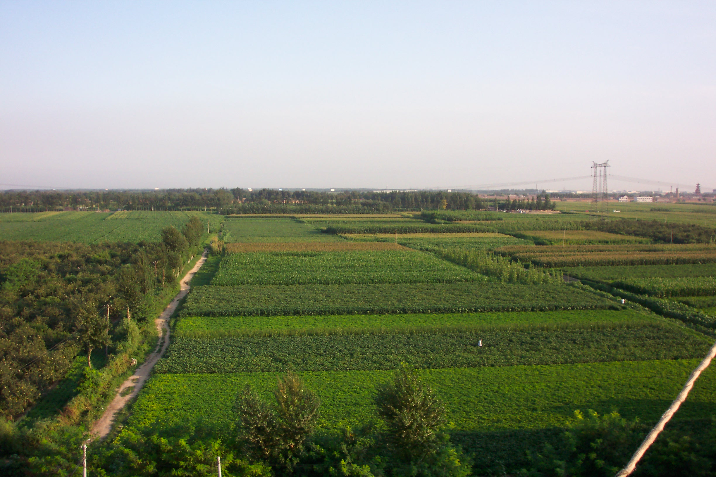 Hot-air balloon ride at Langfang Economic Development Zone near the Beijing Tianjin expressway in China overlooking farming crops. Photo taken 2003/08/10.